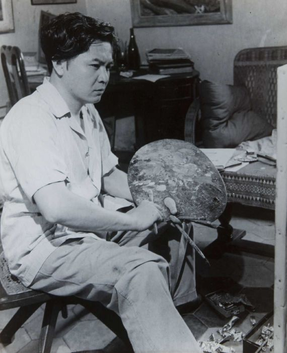 The painter Henk Ngantung